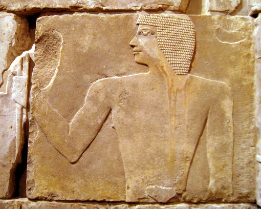 Depiction of Metjen in his mastaba, 3rd Dynasty of Ancient Egypt, Neues Museum Berlin